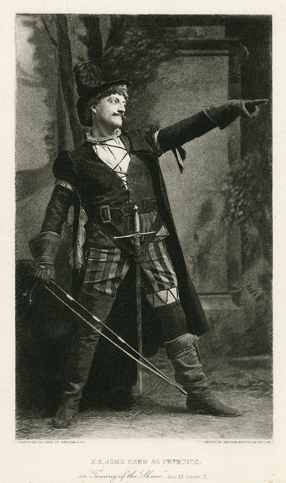 A print of John Drew as Petruchio in an 1888 performance of The Taming of the Shrew